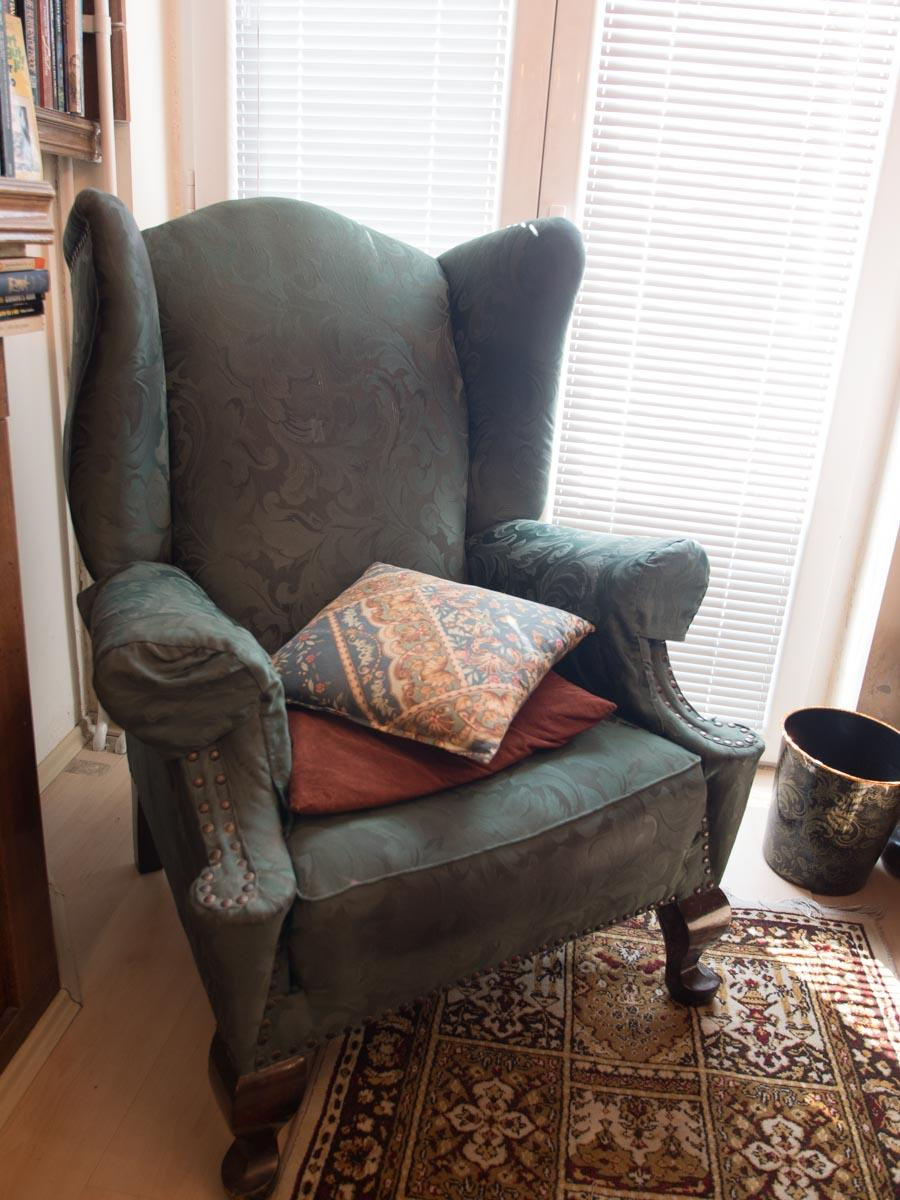 Legacy of Dr Ileana Čura in the Museum of Serbian Literature, part of the Society for Culture, Art and International Cooperation Adligat in Belgrade, Serbia. Српски (ћирилица): Легат проф. др Илеане Чуре у Музеју српске књижевност, односно Удружењу за културу, уметност и међународну сарадњу Адлигат у Београду.